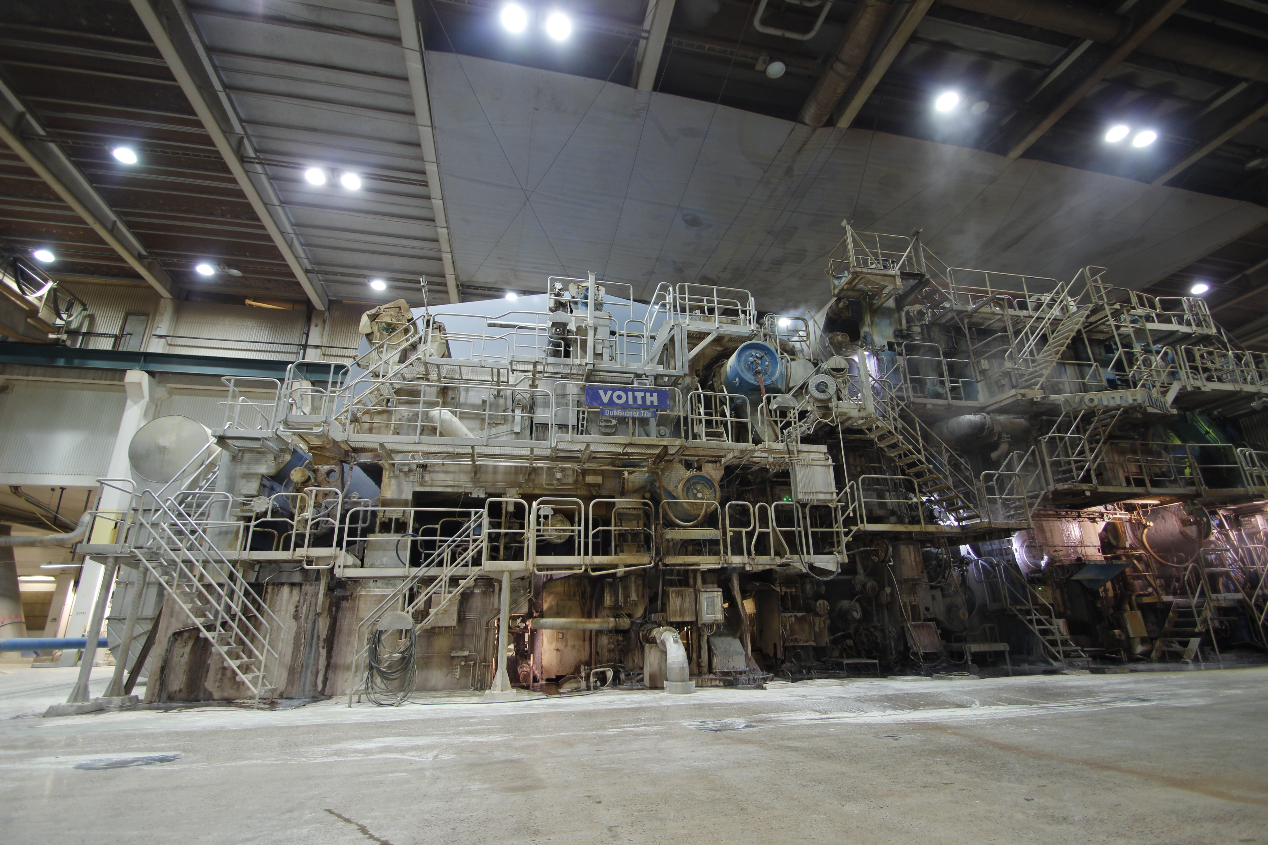 PM52 – a large scale paper machine. In the forming section, or wet end of the paper machine, molecular linkages between fibres are formed by wetting the pulp. Pressure is then applied to the paper pulp in a number of steps, and the pulp is drained of fluids.